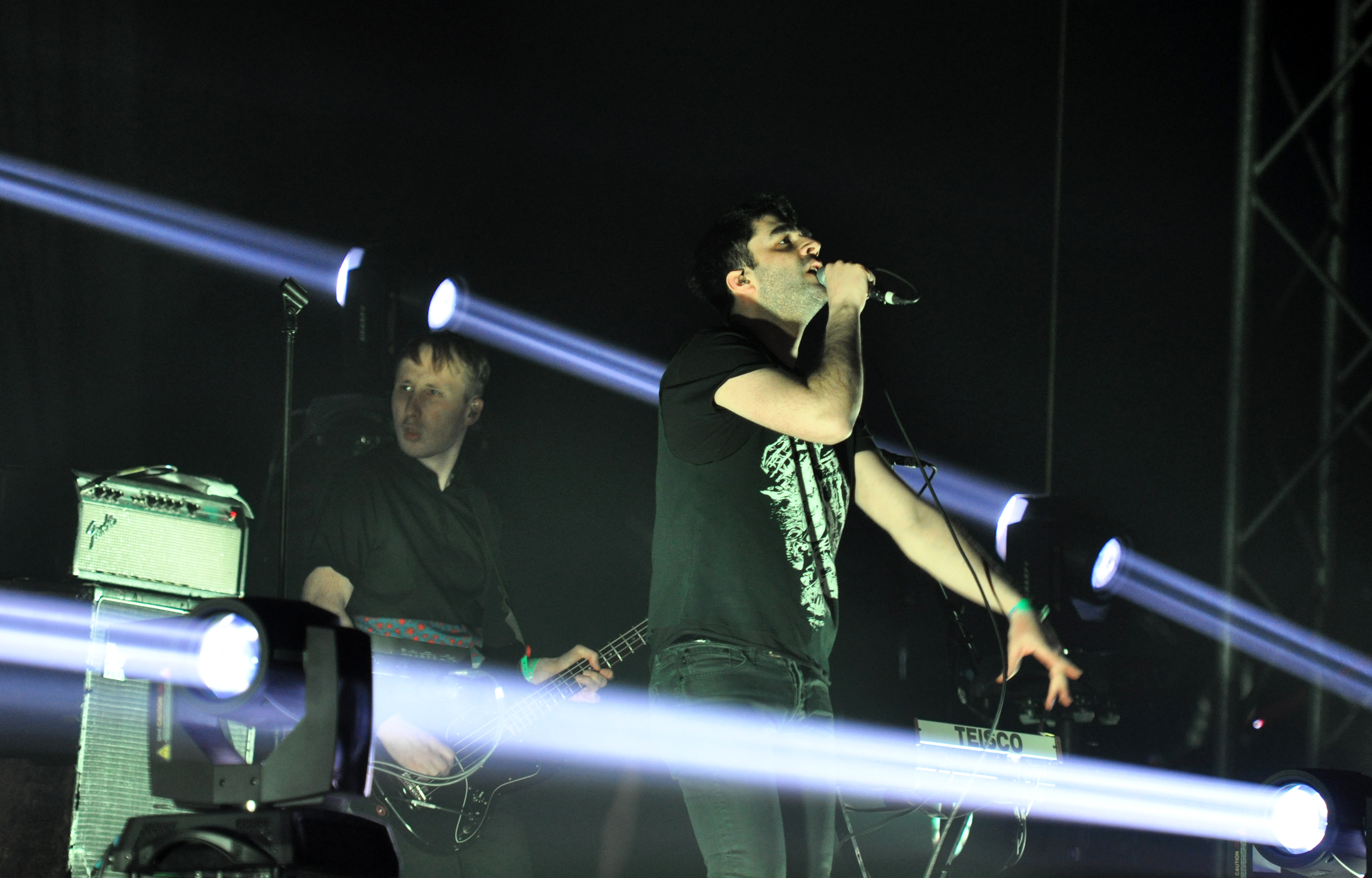 Goose at Paspop 2013, Schijndel, NL